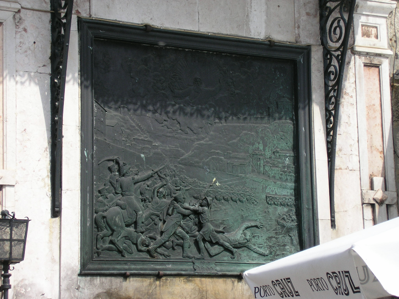 Monument to those who perish in the Ponte das Barcas (pontoon bridge) escaping from the invading French troops in 1809 in Porto, Portugal.